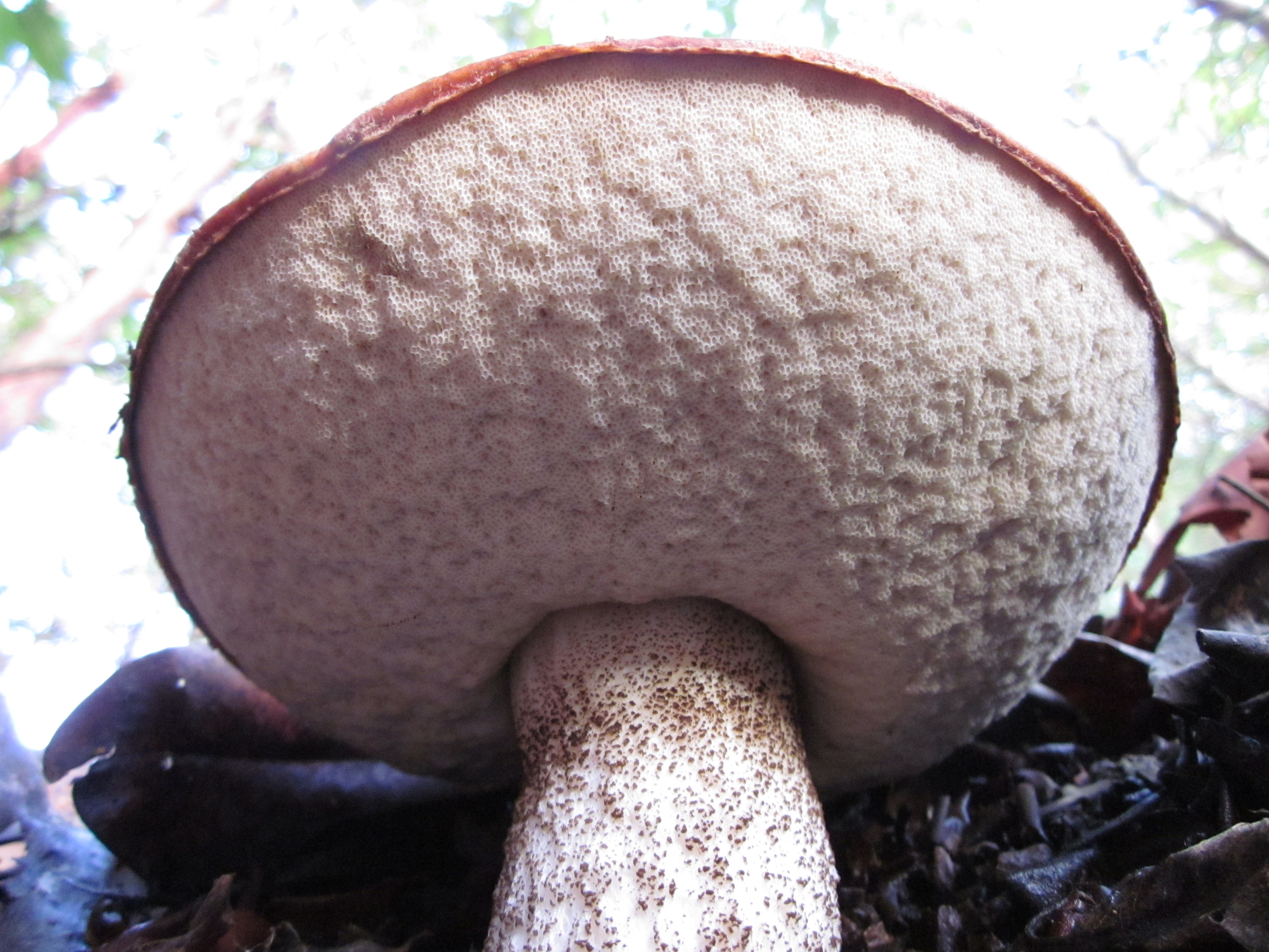 The pore surface of the bolete fungus Leccinum manzanitae Thiers. Specimen found in Bear Creek Trail, Briones Reservoir, Contra Costa Co., California, USA. "Notes: Growing in a stand of Madrones (Arbutus menziesii)."